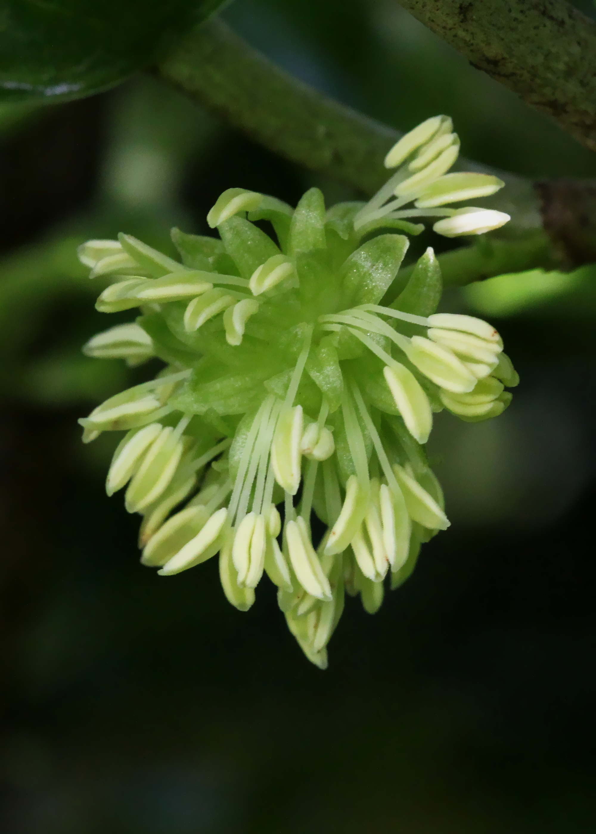 Male taupata flower (Coprosma repens). Photo taken in Auckland, New Zealand.